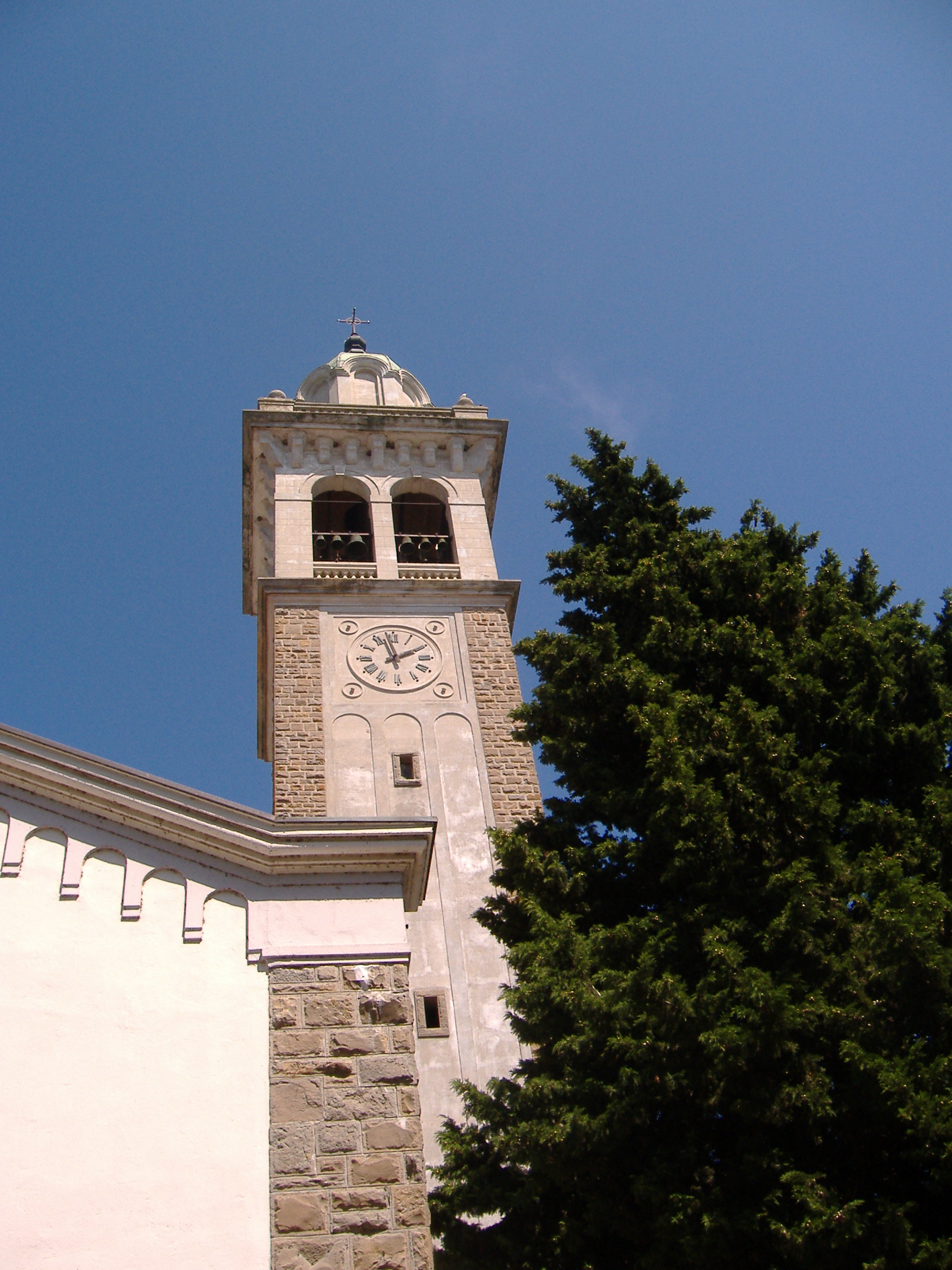 Barbana Sanctuary. Grado, Italy